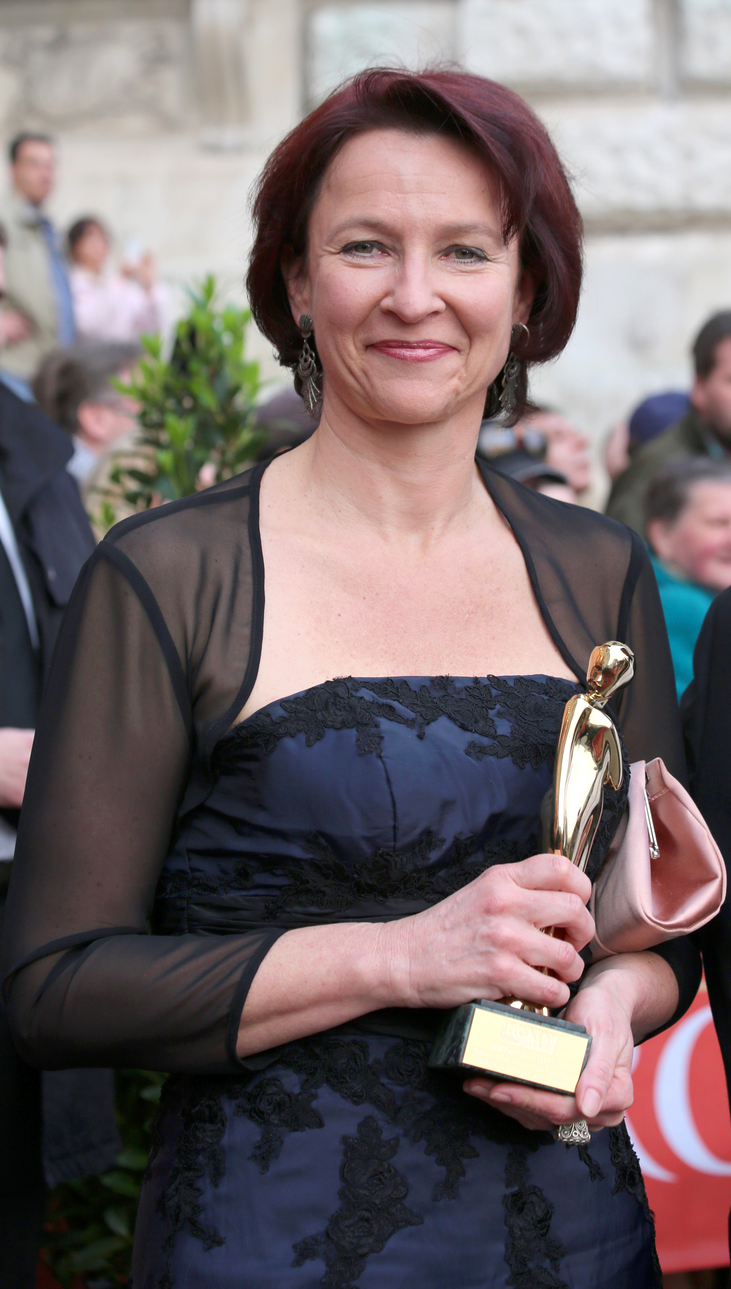 Verena Kurth at the Romy film awards (Hofburg Imperial Palace in Vienna)